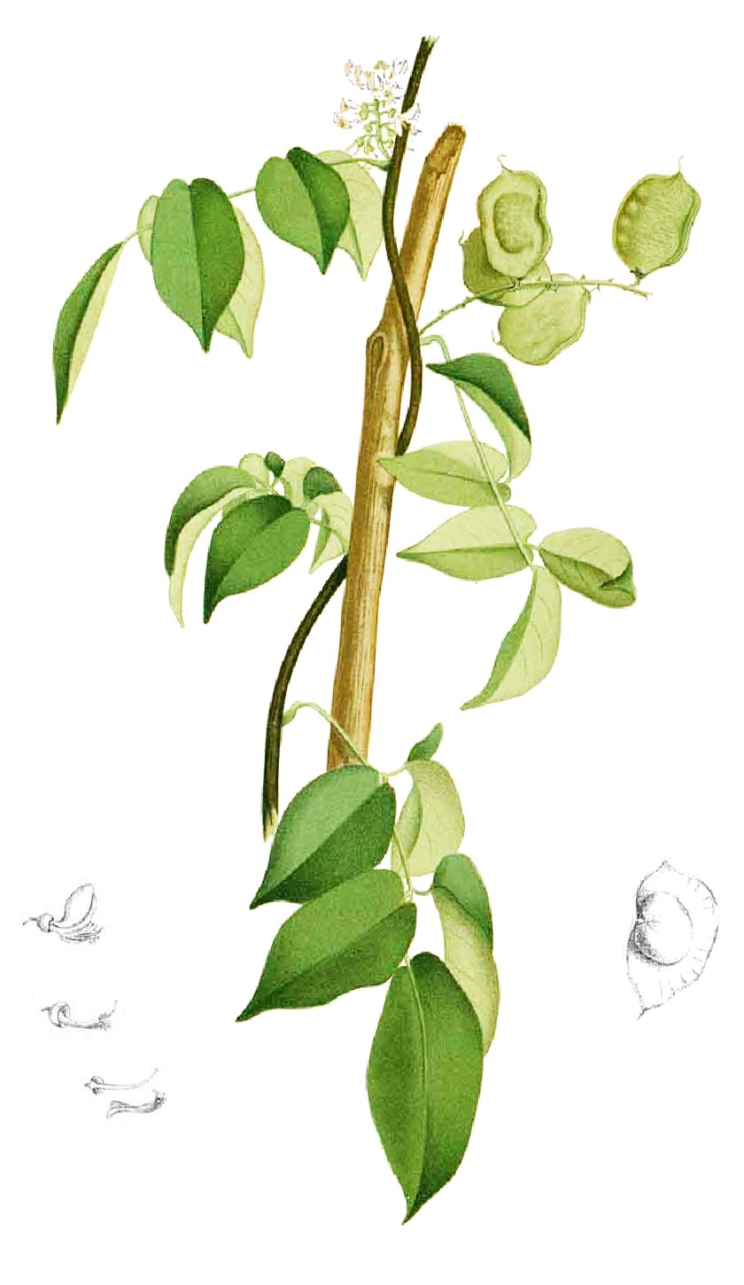 Plate from book